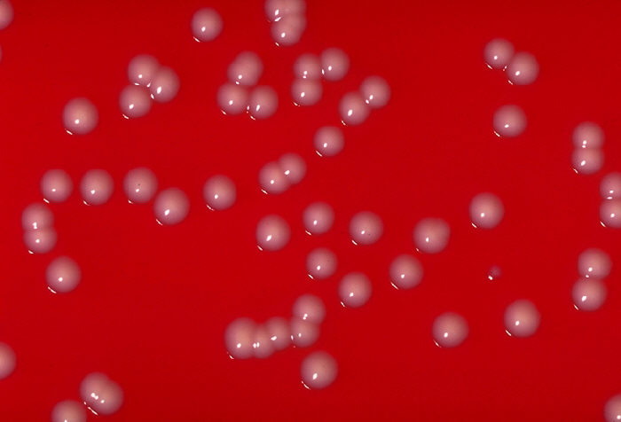 Corynebacterium ulcerans culture on a blood agar plate. Obtained from the CDC Public Health Image Library. Image credit: CDC/Dr. W.A. Clark (PHIL #1600), 1977.